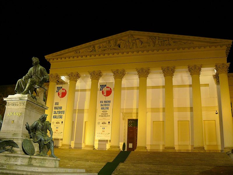 The National Museum in Budapest